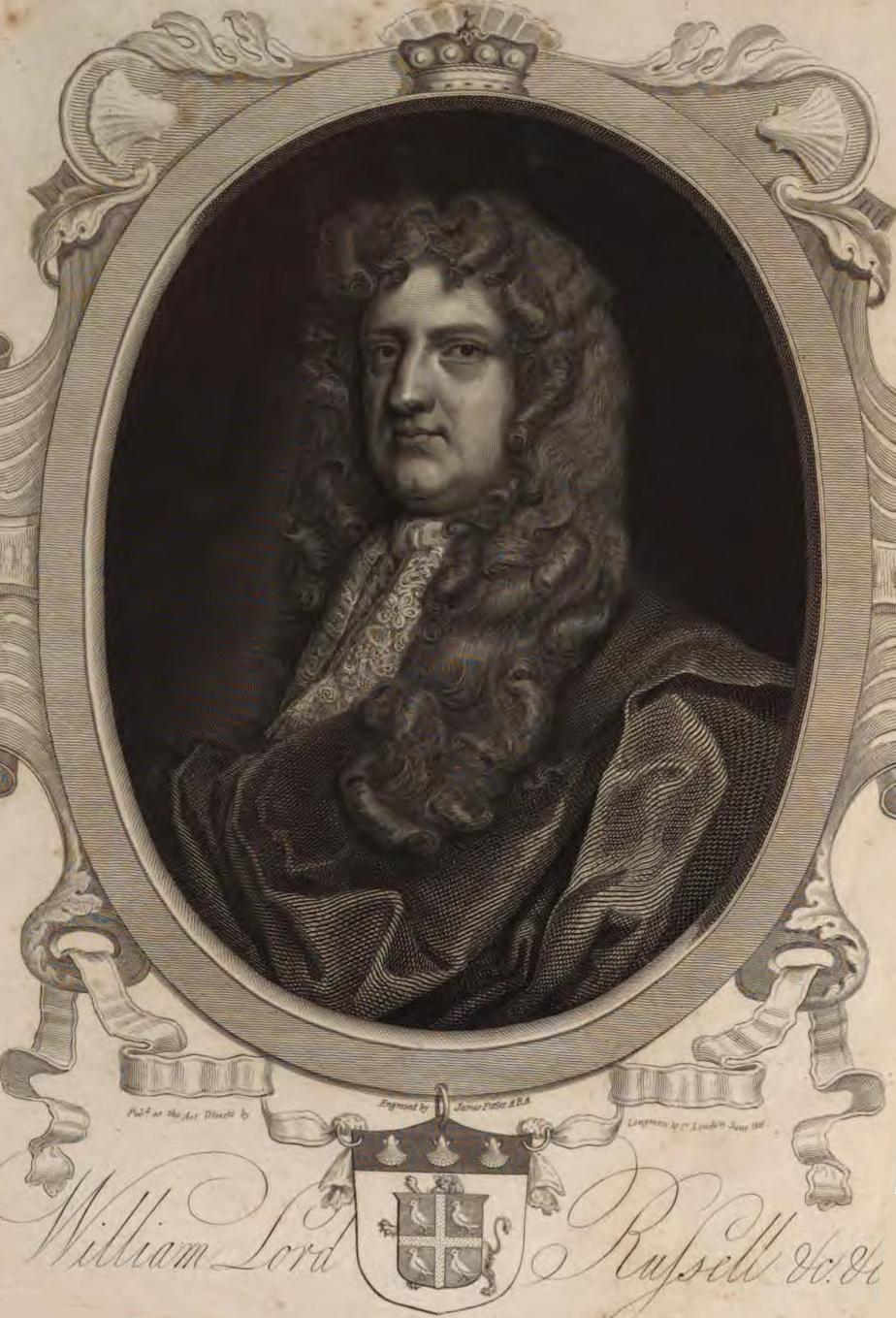 Lord William Russell (1639-1683)